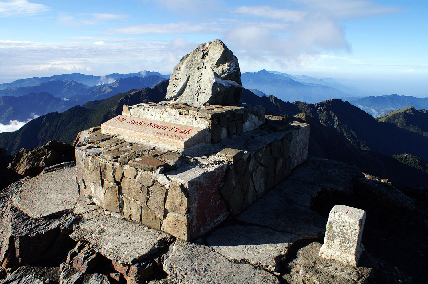 The Top Of Jade Mountain